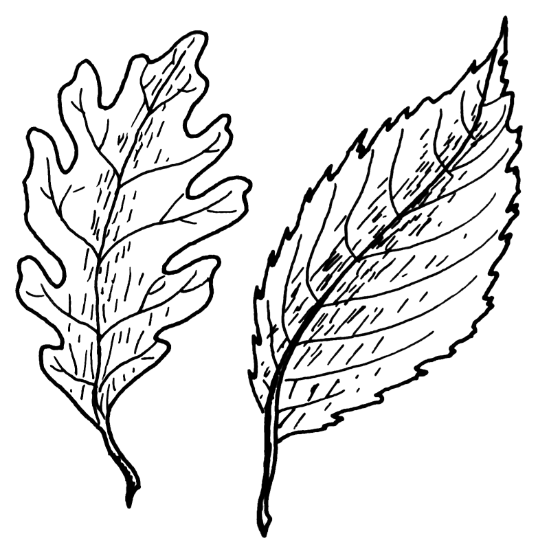 Simple leaves schema